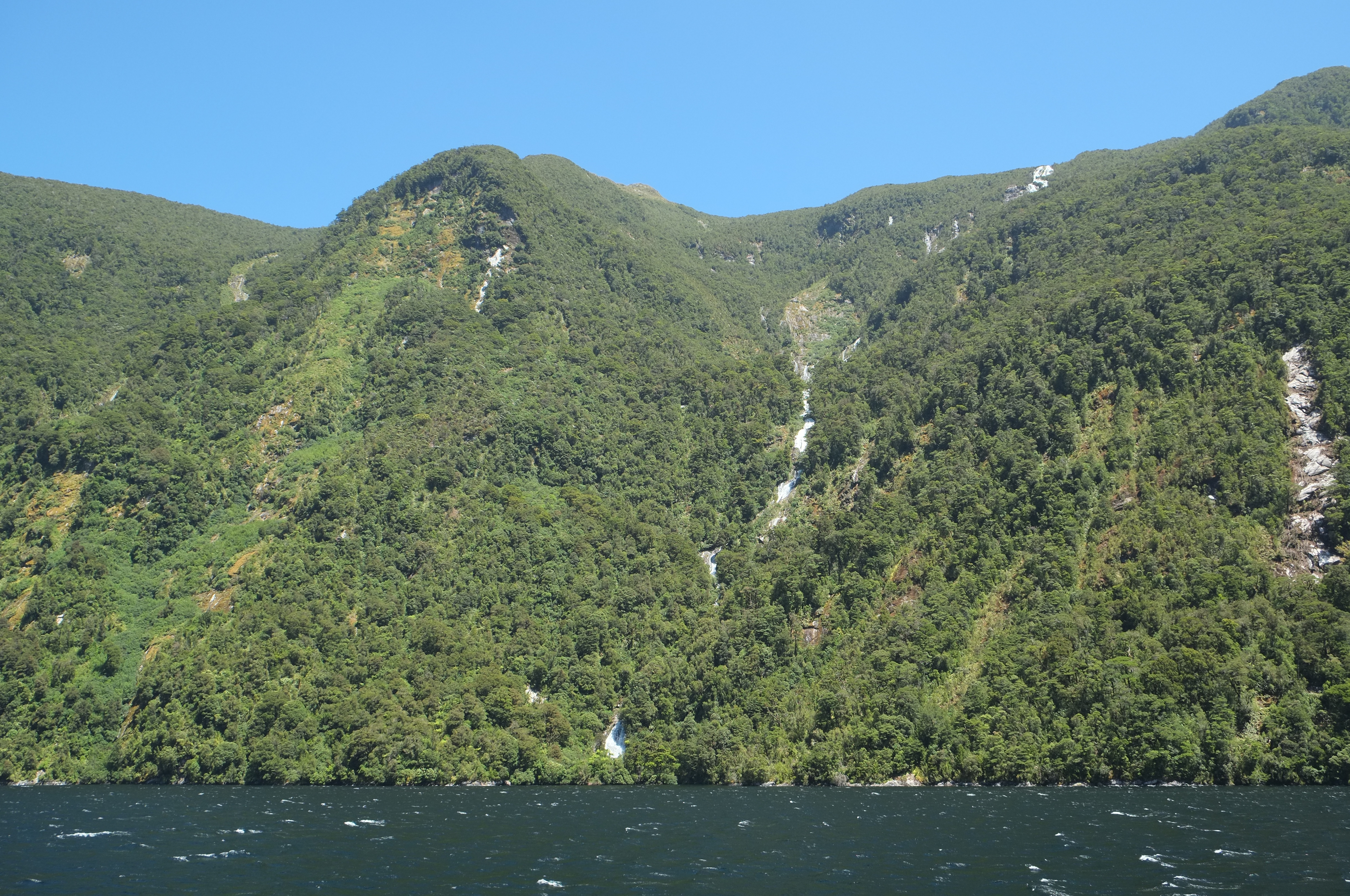 Browne Falls (Doubtful Sound) with very low water flow